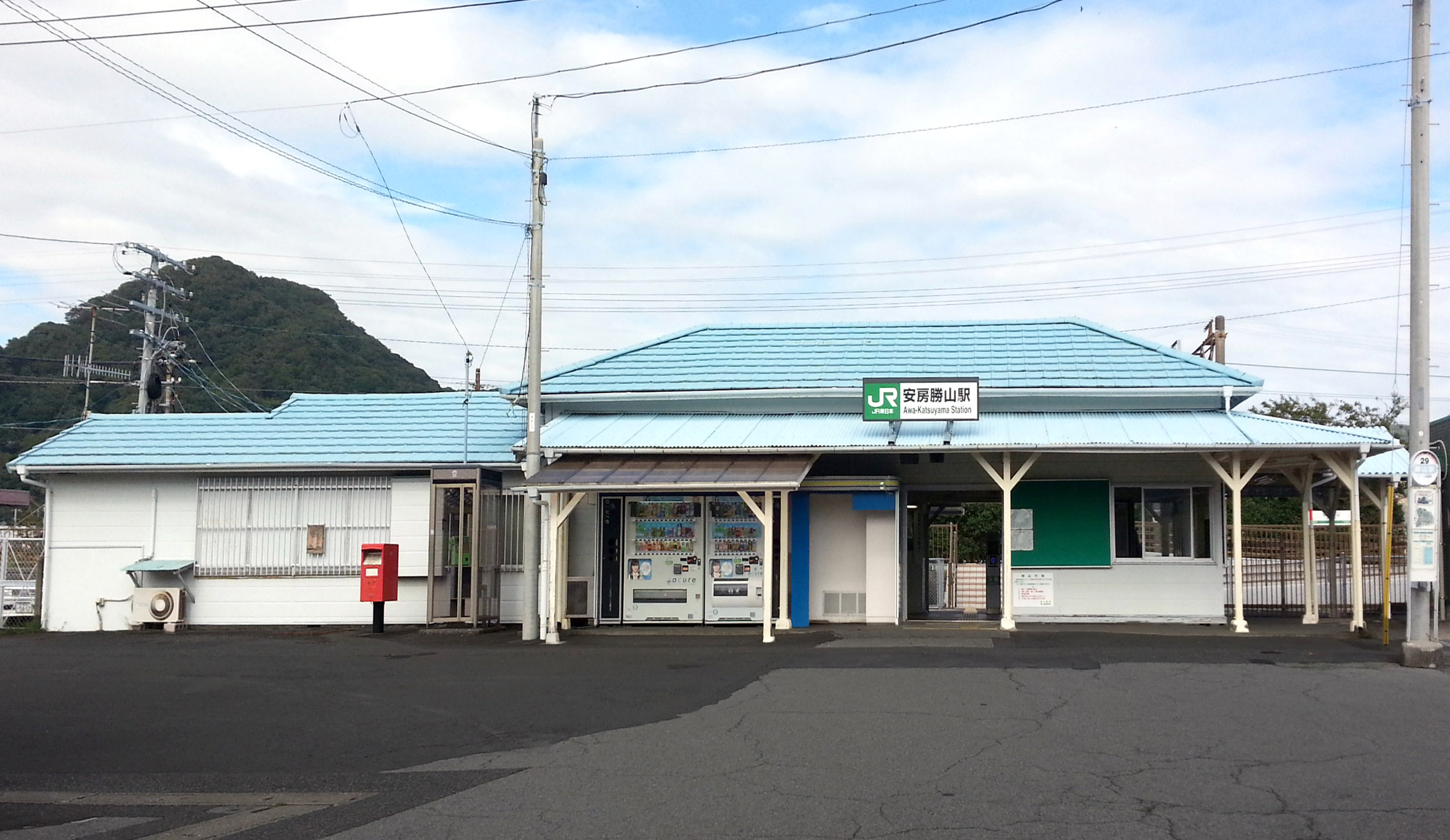 Awa-Katsuyama Station on the Uchibo Line in Chiba Prefecture, Japan